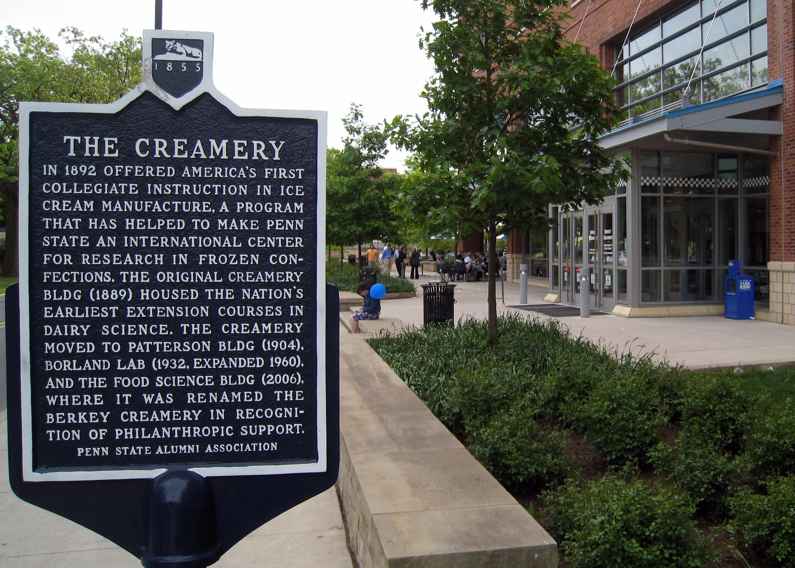 Information Plaque outside the Pennsylvania State University Food Science Building for the Berkey Creamery. May 15, 2010.